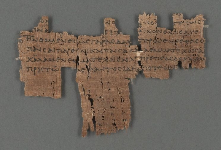 Alcman, Poem in hexameters